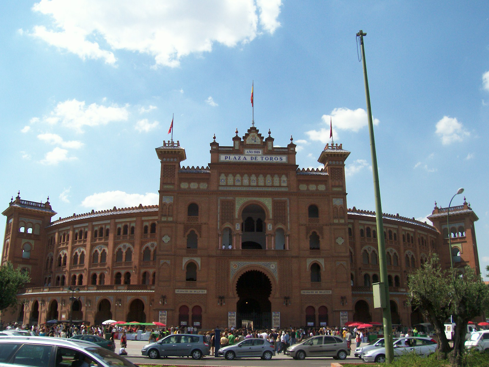 Las Ventas bullring